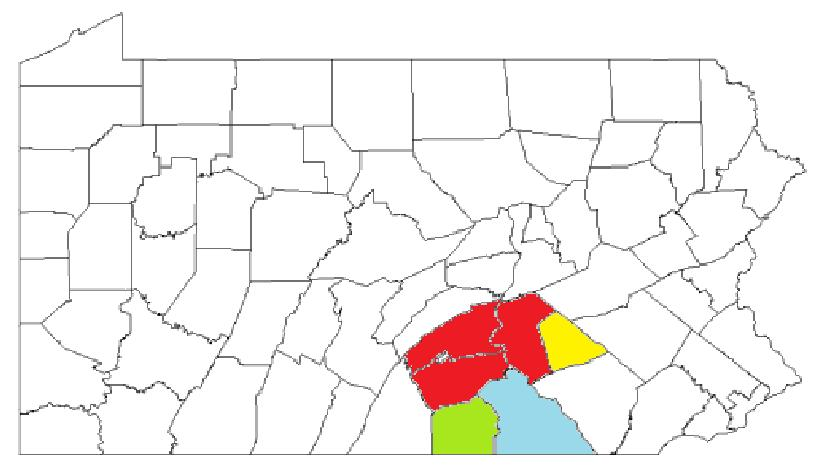 HarrisburgYork Lebanon CSA